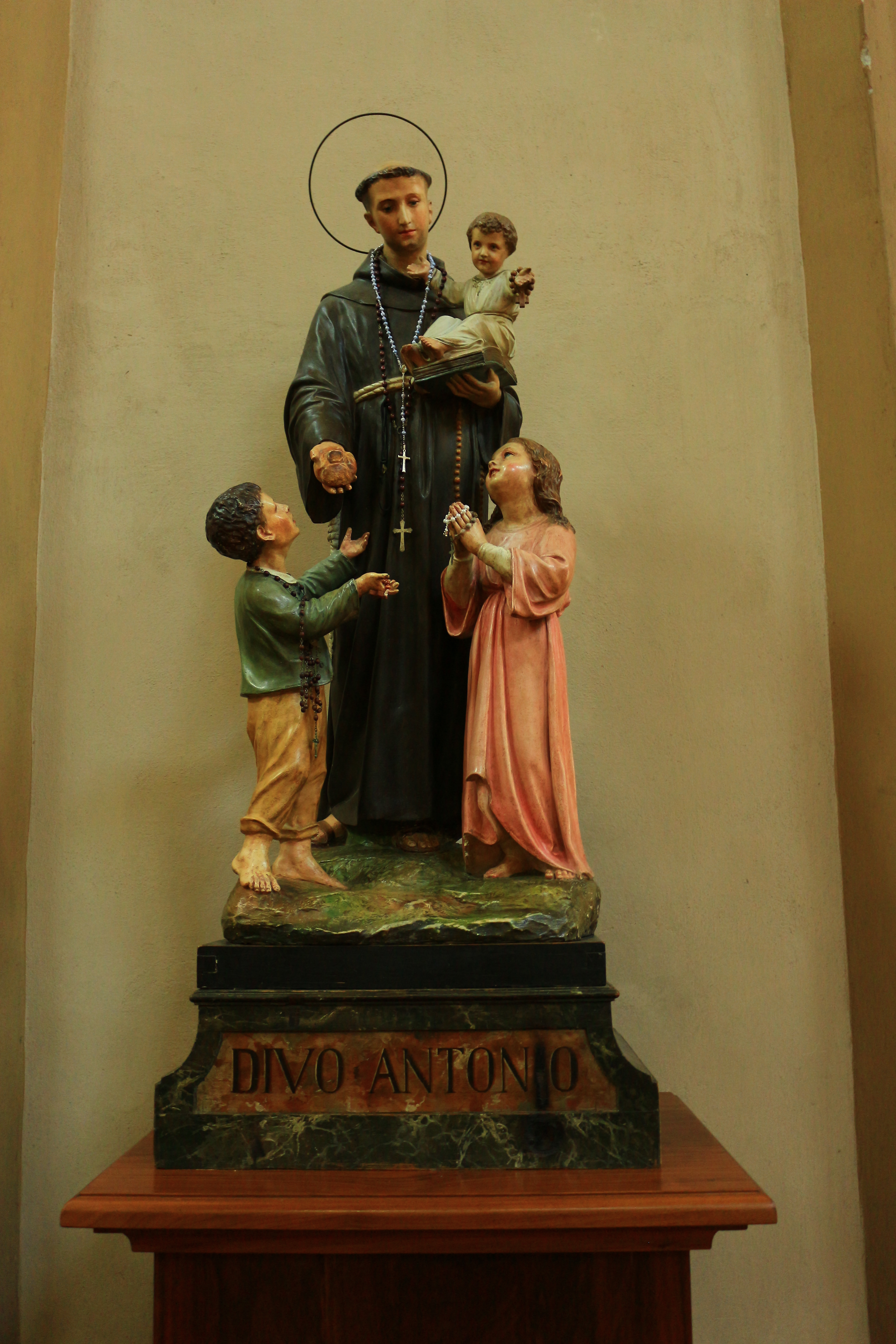 Statue of Saint Anthony of Padua Chiesa Parrocchiale di Brivio Church of Brivio (Italy) August 2018